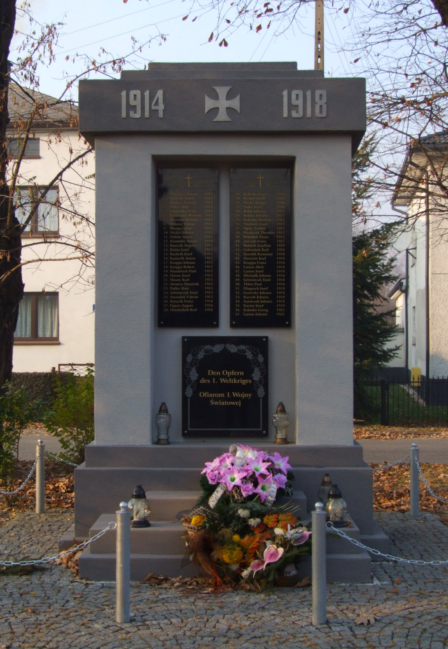 World War I Memorial in Krzyżanowice (Kreuzenort)